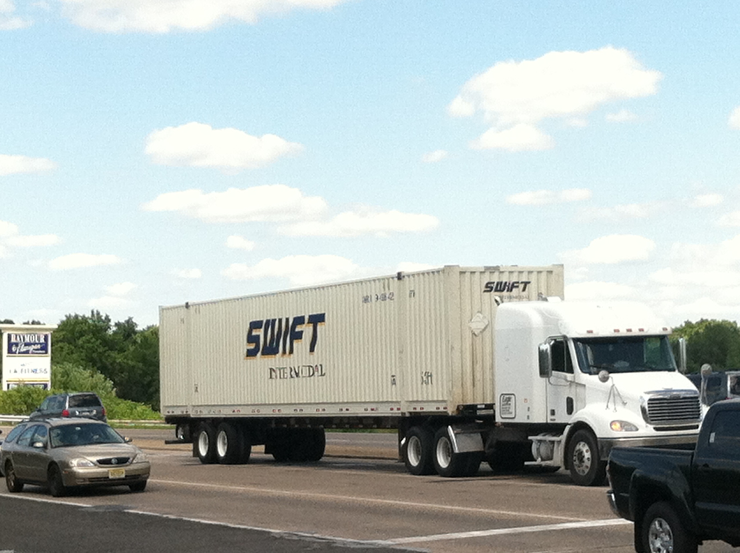 Swift 53ft Intermodal container